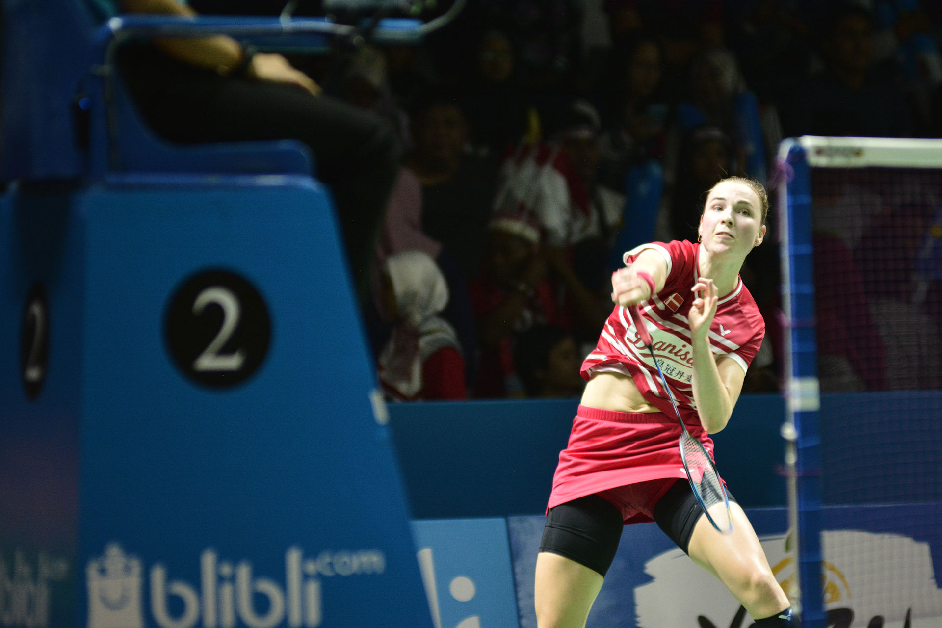 Line Kjærsfeldt at Indonesia Open 2018 badminton tournament